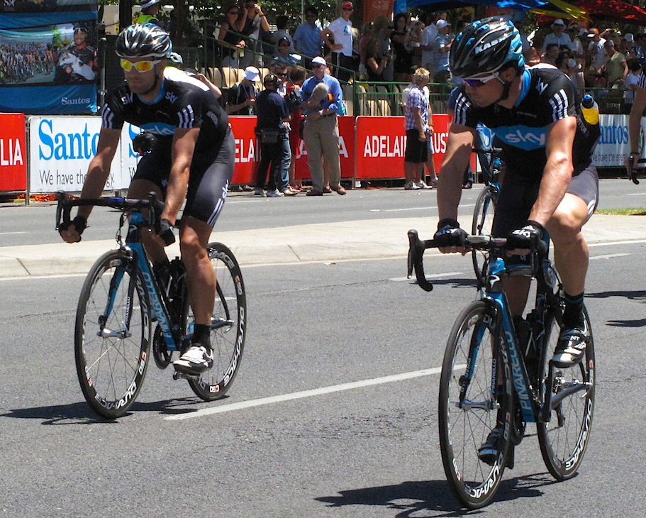 Greg Henderson and Chris Sutton warm up prior to the start of Stage 6 of the 2010 Tour Down Under. Henderson and Sutton went one-two in the prelude to the 2010 Tour Down Under. They switched places at the end of Stage 6 with Sutton winning and Henderson finishing second. Sutton's Stage 6 win was the only stage win by an Australian at this year's Tour.